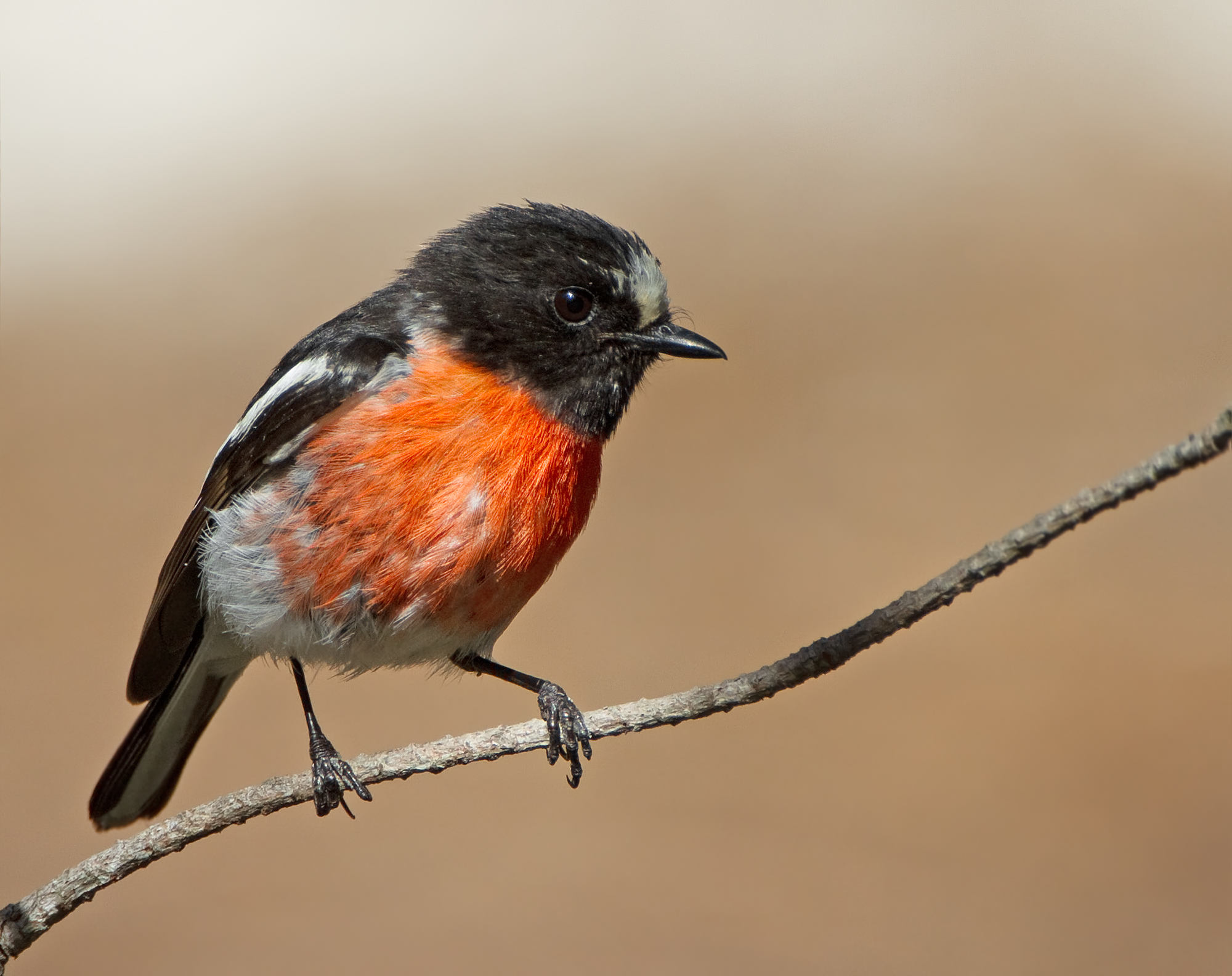 A young male Scarlet Robin (Petroica boodang), Orford, Tasmania, Australia.